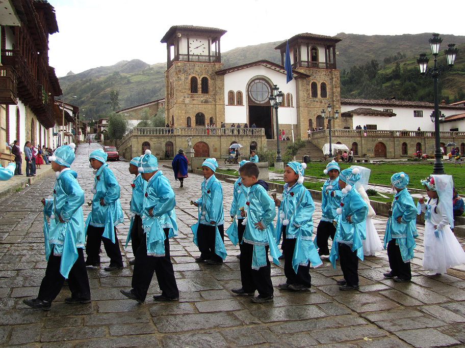 The festivities of Jesus' nativity are characterized by the exit to the streets of the negritos and of the angelitas, children who enliven Christmas carols to adore to the image of the child Jesus.